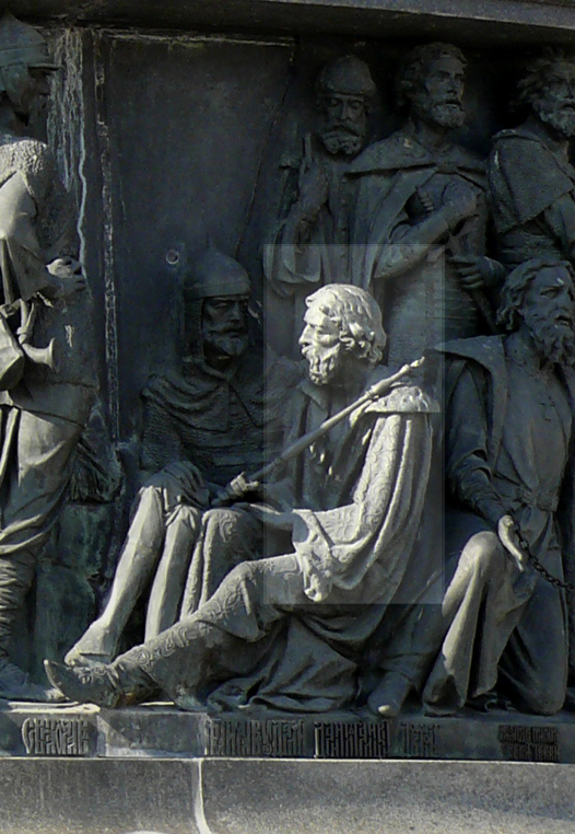 Danylo of Halych on the Monument «Millennium of Russia» in Veliky Novgorod